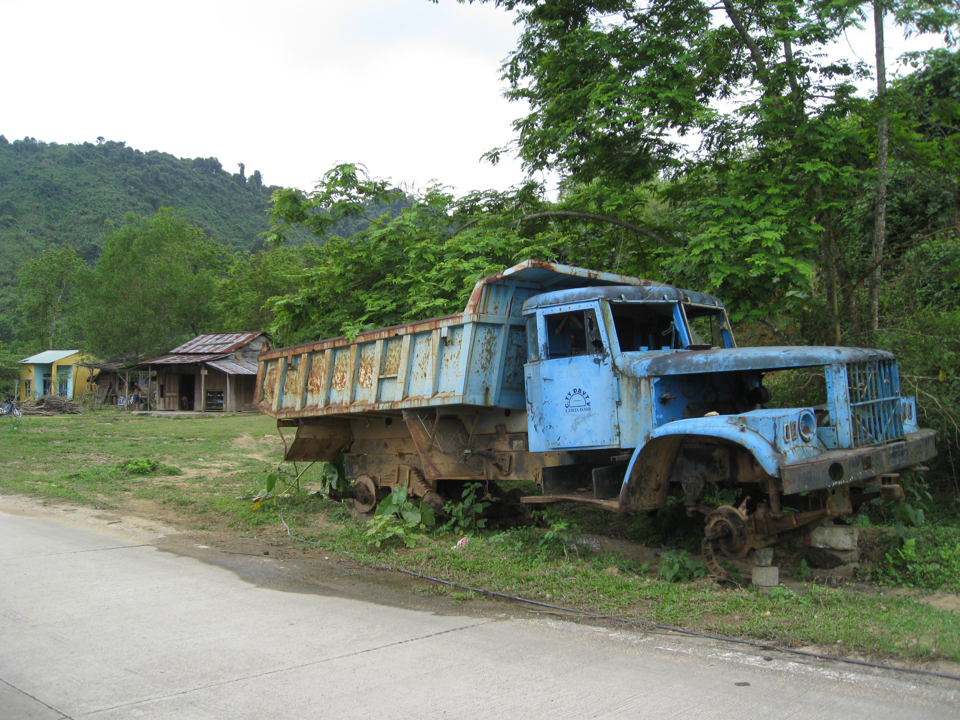 Abandoned KrAZ-256 dump truck in Vietnam.